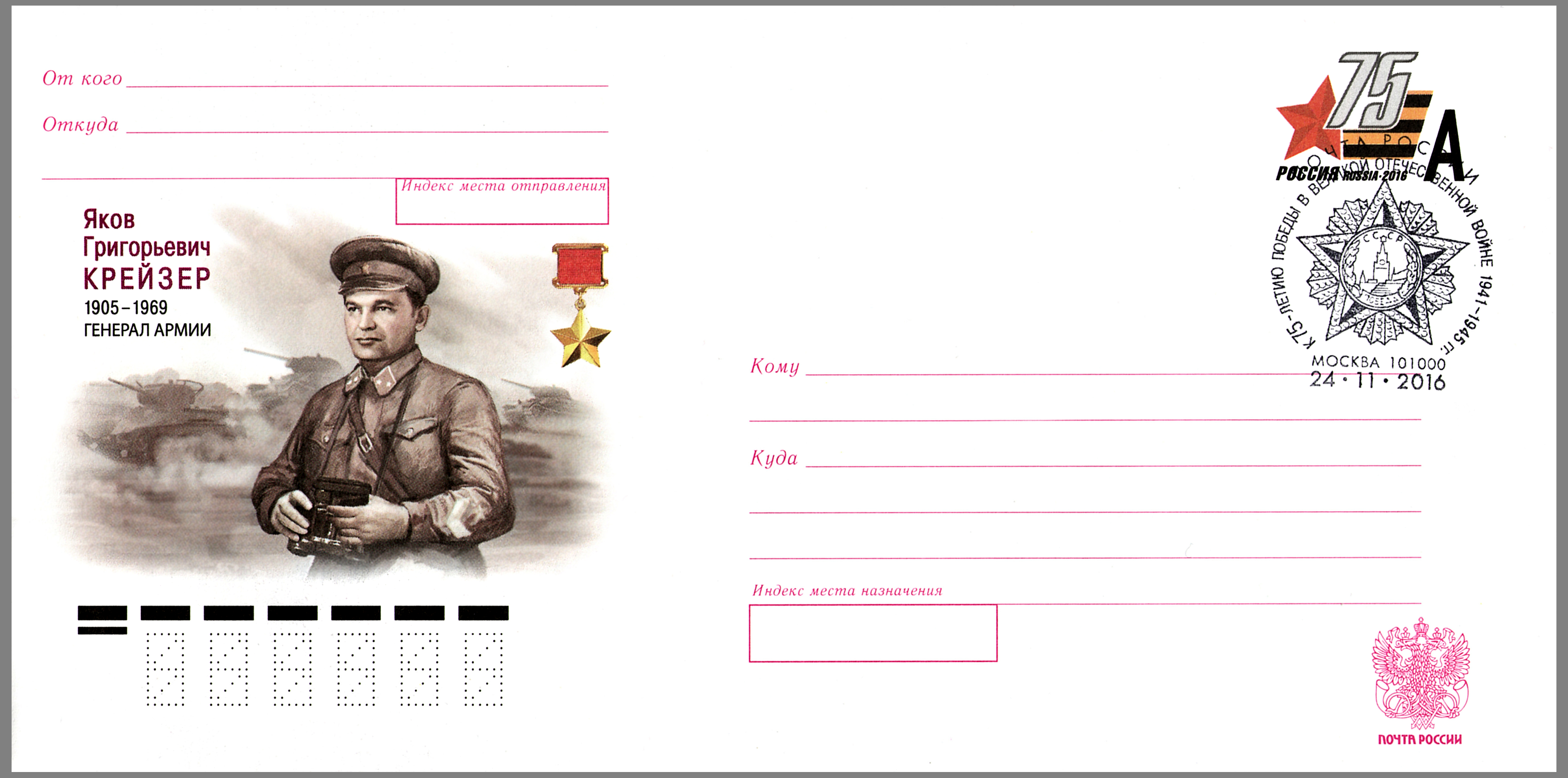 The 75th anniversary of the Victory in the Great Patriotic War (an ongoing series of postal stationery envelopes). Yakov Kreizer (1905—1969), a Soviet military commander, General of the Army (1962), a Hero of the Soviet Union (1941). The illustrated postal stationery envelope with commemorative stamp, Russia, 24 November 2016. PTC Marka Catalogue No. 288/кор-16. Envelope paper VBM (ВБМ) with watermarks “ПОЧТА РОССИИ”. Offset printing. Size of the envelope: 110×220 mm. Print run: 1,000,000. The non-denominated stamp of the ongoing series: the red star, the ribbon of Saint George, numerals “75”. The illustration: the portrait of Yakov Kreizer in the uniform of Major General of the Red Army; a Gold Star Medal of the Hero of the Soviet Union. Pictorial cancellation: Moscow, 24 November 2016, Catalogue of PTC Marka No 2016/358-ш.